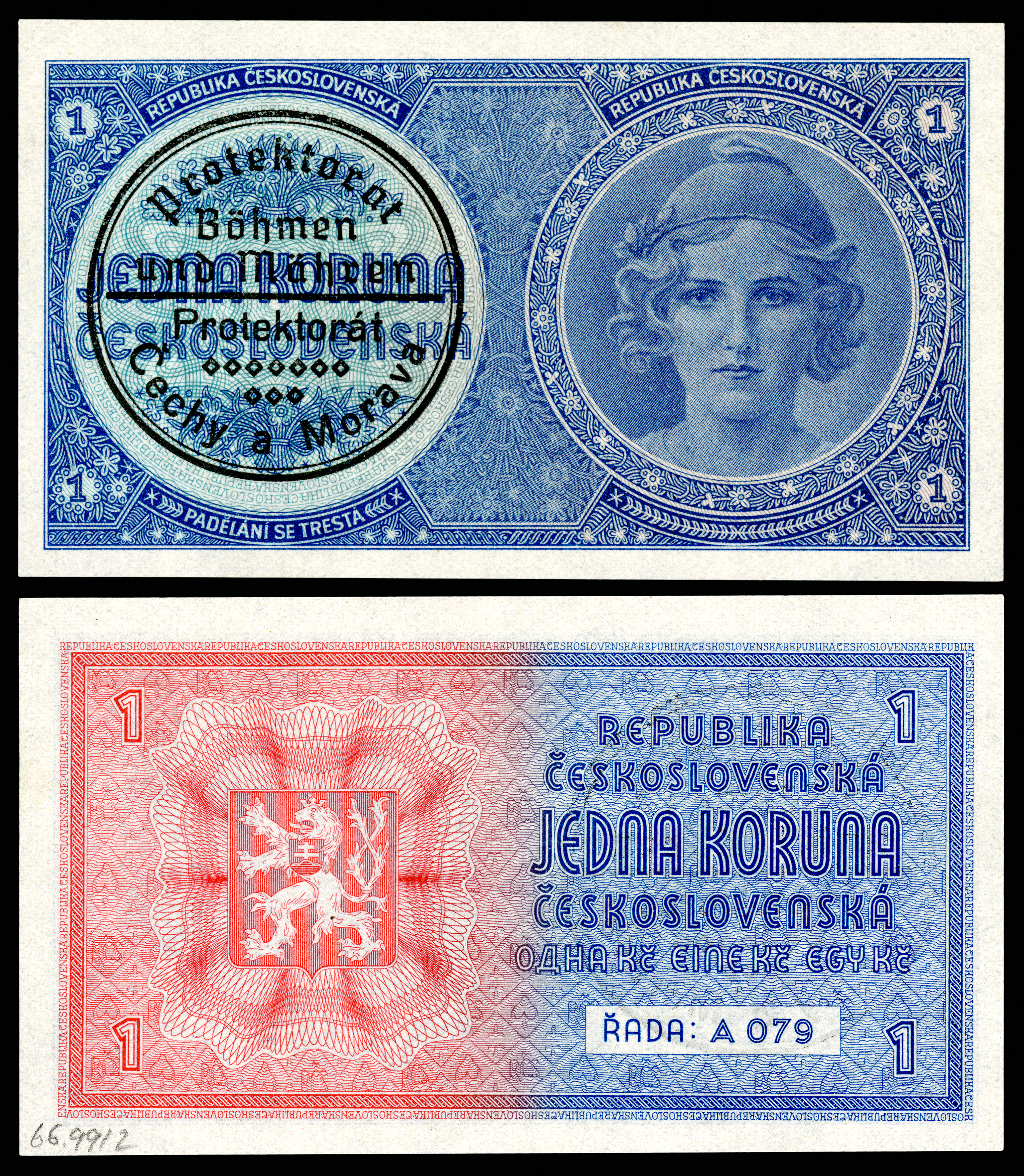 Protectorate of Bohemia and Moravia, 1 koruna , ND (1939). The actual note, a Republic of Czechoslovakia 1 koruna note (dated 1938), was printed but never issued. The series was intended for the Czech army. During the German occupation of Czechoslovakia, the unissued 1938 notes were circulated from February till May 1940, with an oval stamp on the face identifying the currency as issued by the Protectorate of Bohemia and Moravia.